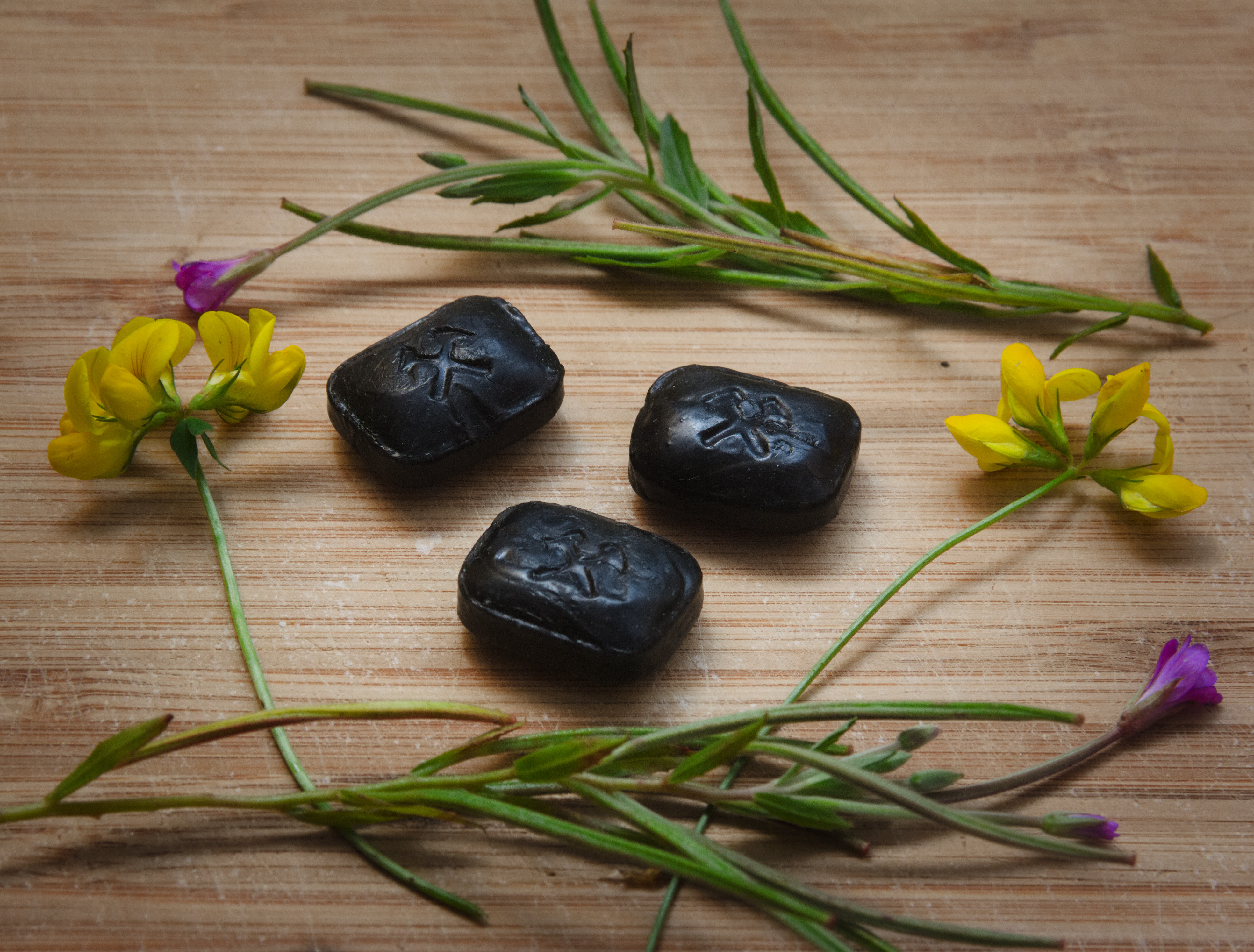 Kopalnioki (pl) - Silesian herbal candies